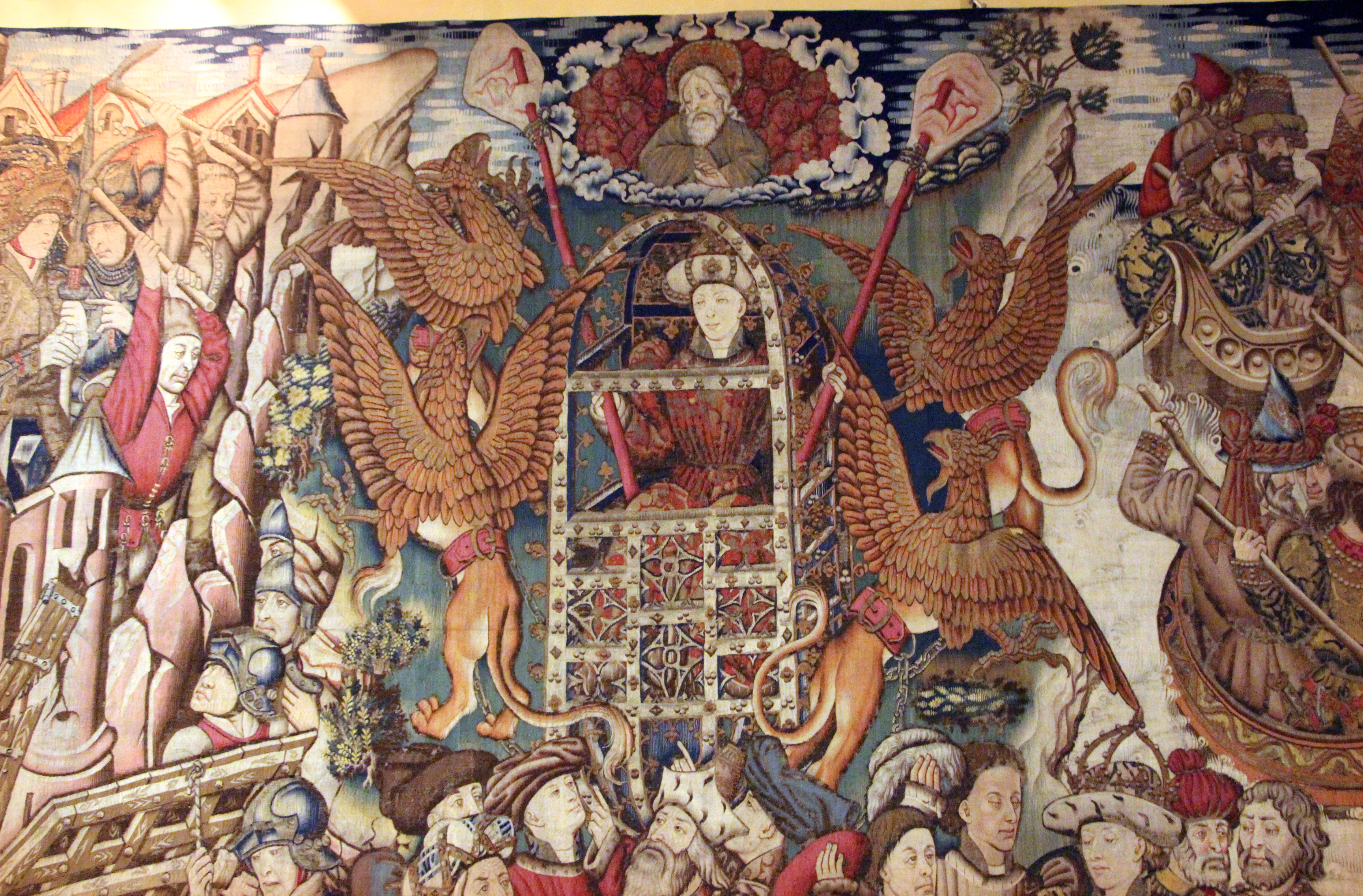 Maturity of Alexander the Great tapestry